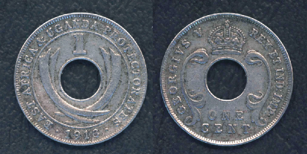 1 cent coin of the East African Rupee from 1913. Material copper/nickel alloy, diameter 22.3 mm